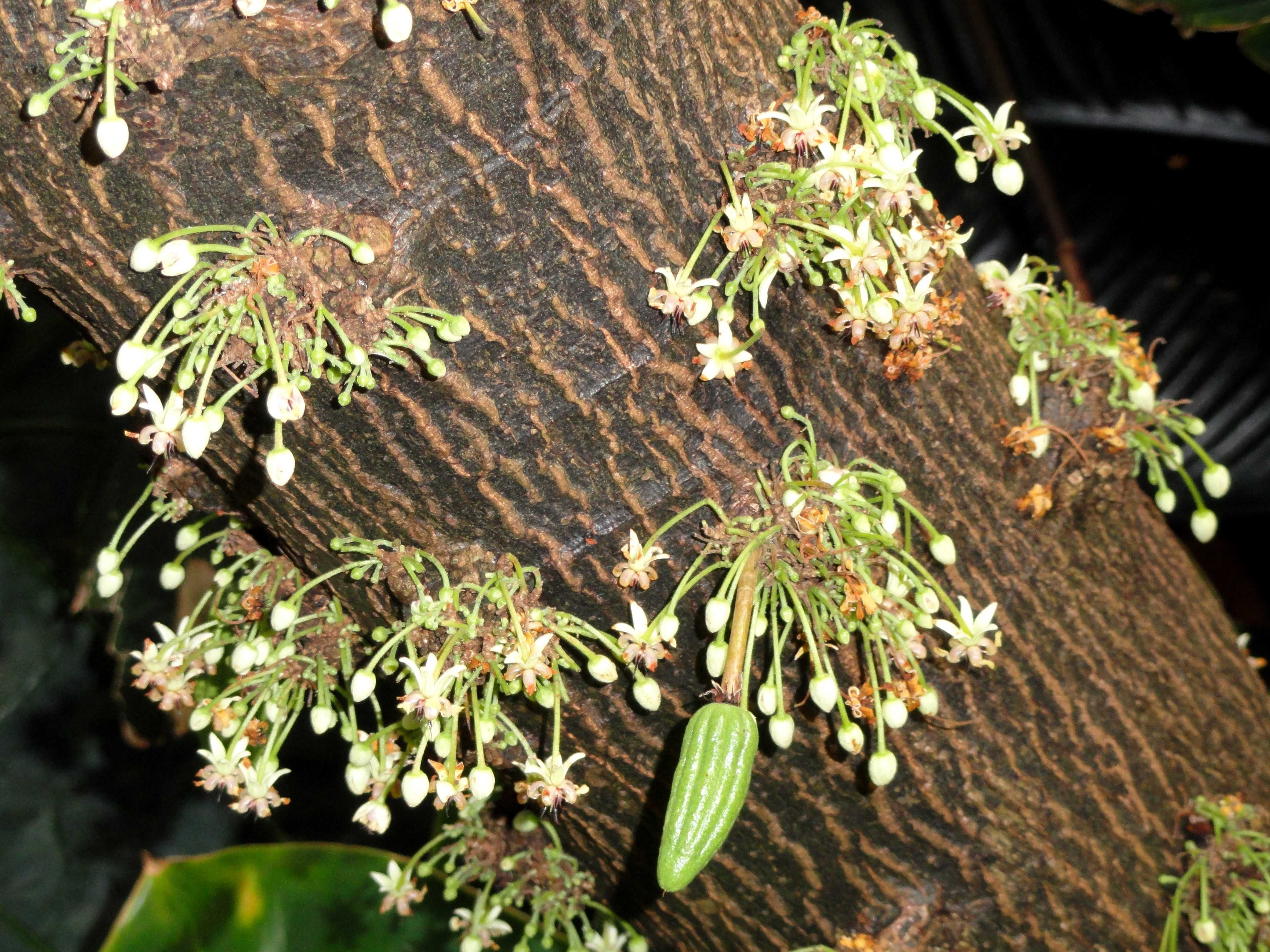 Theobroma cacao. Botanical specimen in the Denver Botanic Gardens, 1007 York Street, Denver, Colorado, USA.